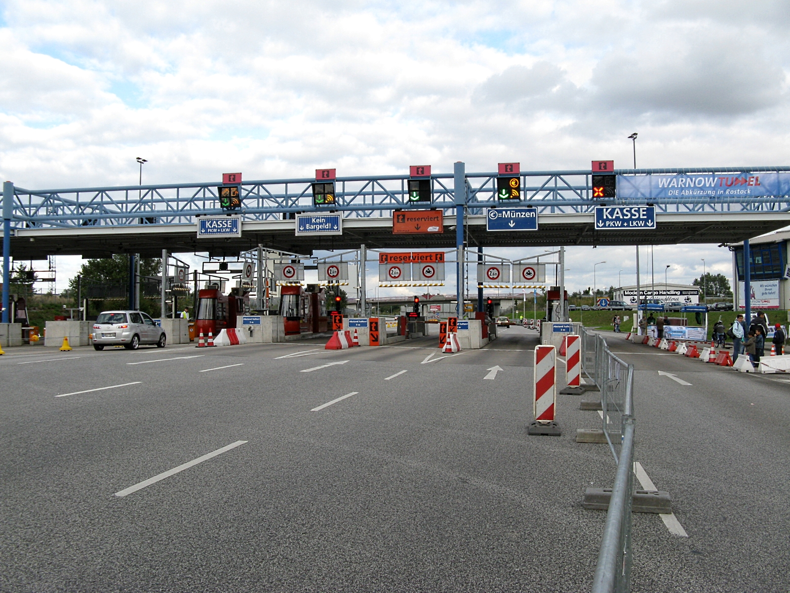 Warnow tunnel in Rostock, toll point